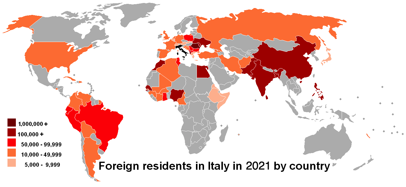 Foreign residents in Italy on 31st December 2006